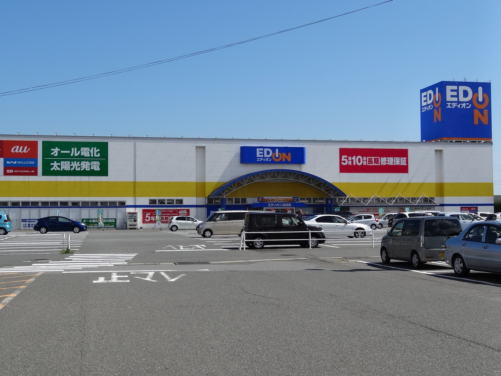 Electric Store "Edion" at Chofu, Shimonoseki City, Yamaguchi, Japan.